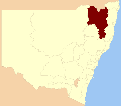 Location of the New South Wales Legislative Assembly electoral district within New South Wales. Reference: [1]